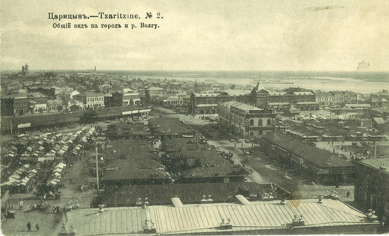 Tsaritsyn. General view of the city and the Volga